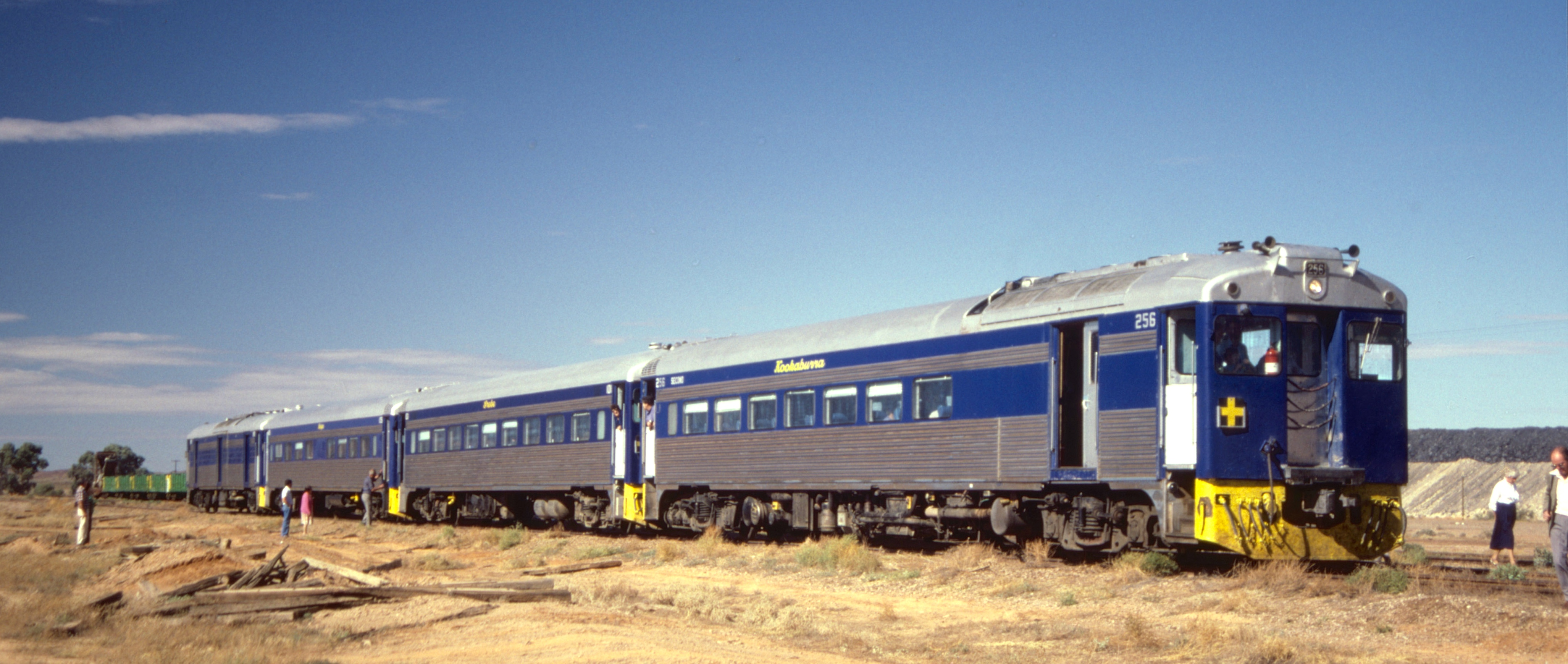 Four Bluebird railcars at rest in the station yard at Telford in the north of South Australia. Built by the former South Australian Railways, they were owned at the time of the photograph by the (also now defunct) Australian National Railways Commission (AN). Encompassing the three types of Bluebird (250, 100 and 280 classes), the four cars are: power car no. 256 'Kookaburra' (leading); two 100 class trailer cars – no. 101 'Grebe' and 105 'Snipe' – and powered baggage car no. 282. The yellow-cross destination board indicates "North line". Passengers are wandering over the tracks in the yard; earthworks of the nearby Telford Cut coal mine are visible in the background. The occasion was a tour charter on 9 May 1987.